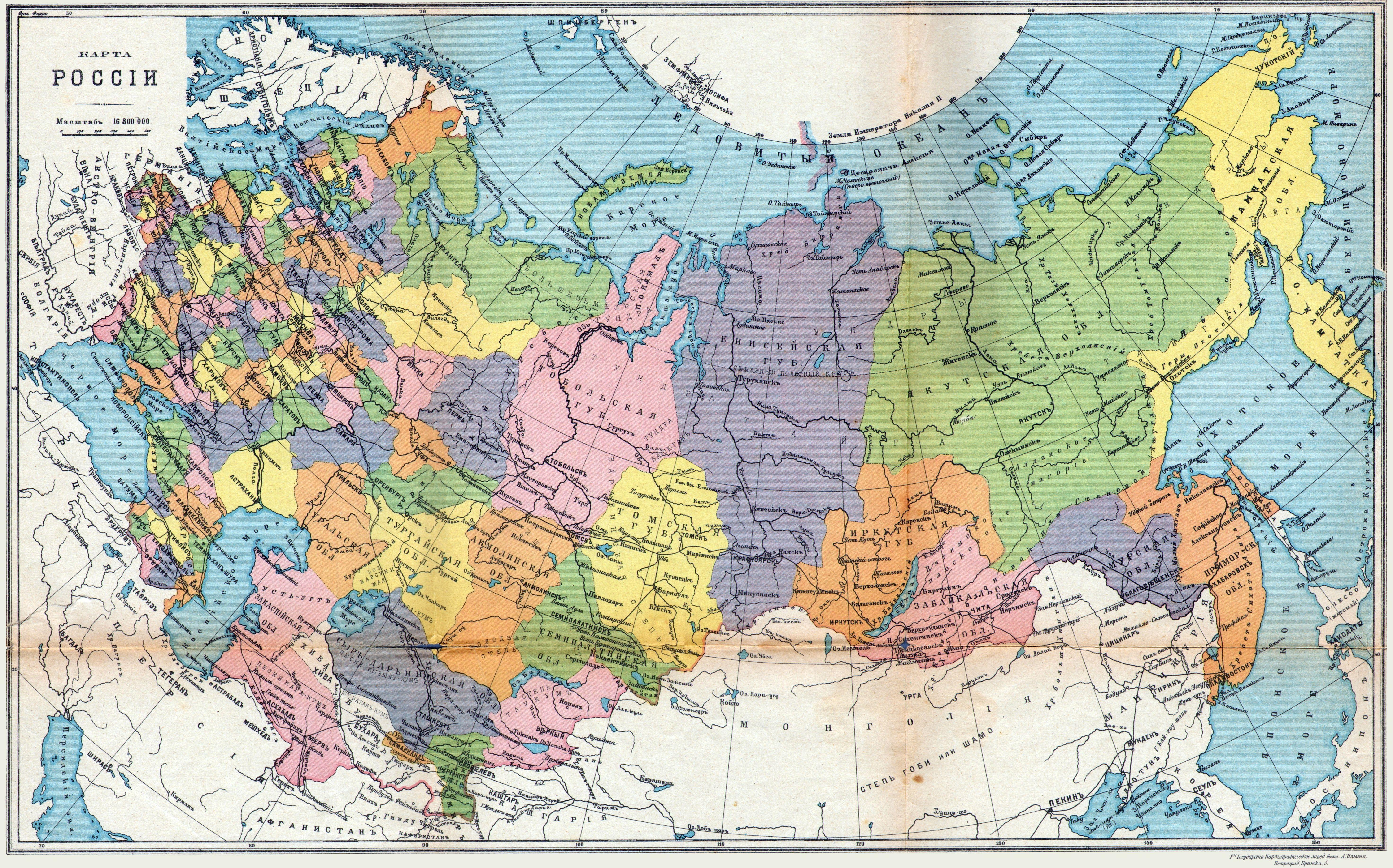 Map of all provinces of Russian Empire 1898. Russian school atlas 1898.